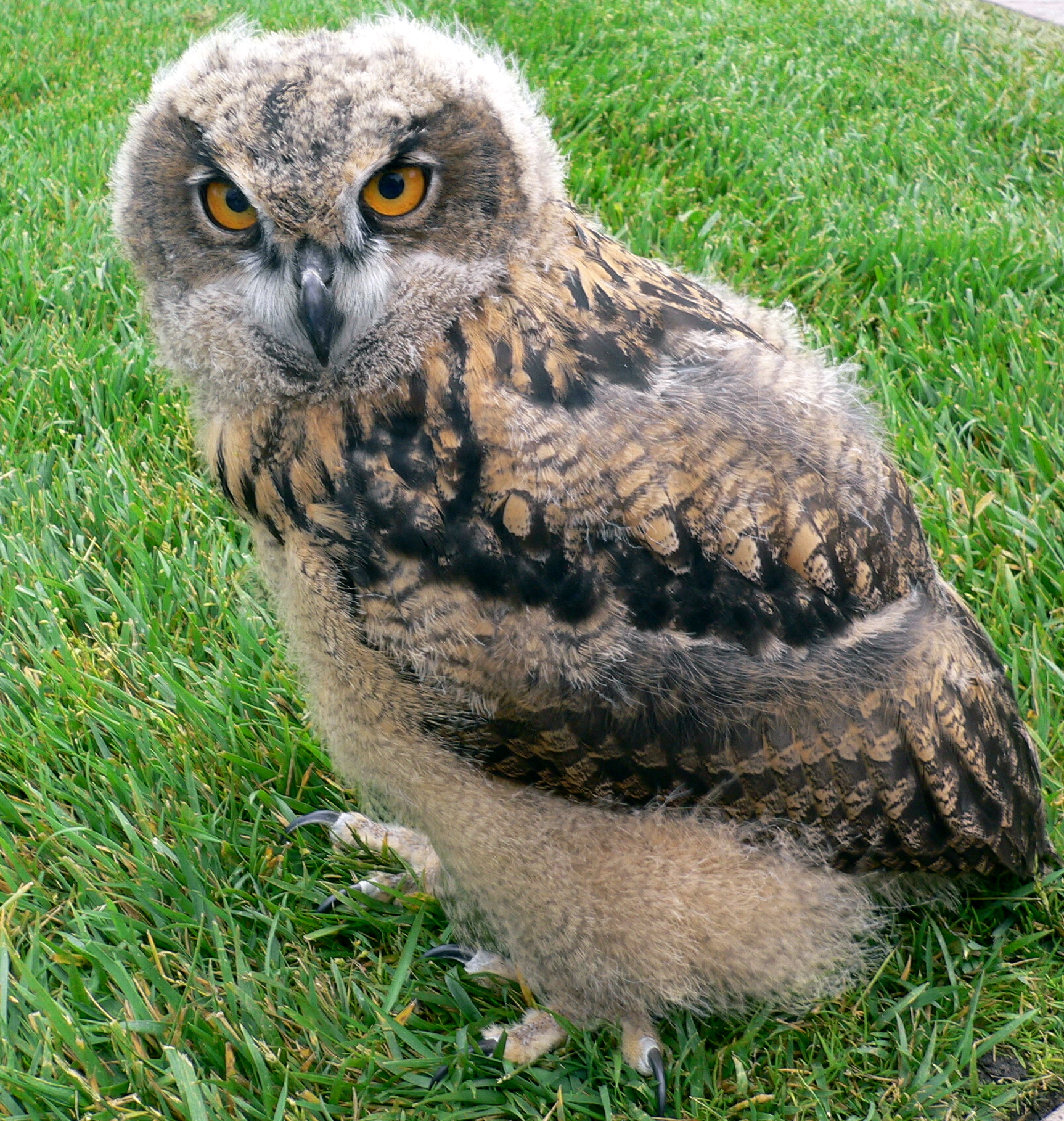 7 weeks old? Waddling around on big feet, like a puppy dog? Still learning how to fly. Each of her eyes is bigger than her brain. As an adult, she will be able to kill small deer with her beak and pierce 18-gauge steel (e.g., a baking tray) with her talons. The European Eagle Owl is the largest owl in the world.